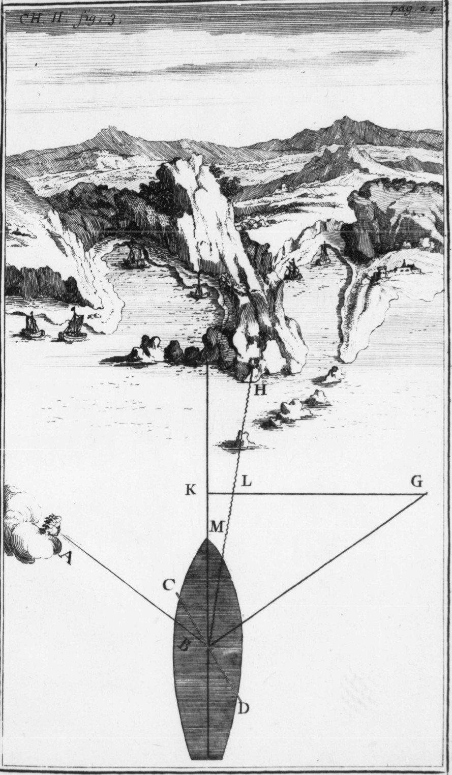 Drift according to Renau